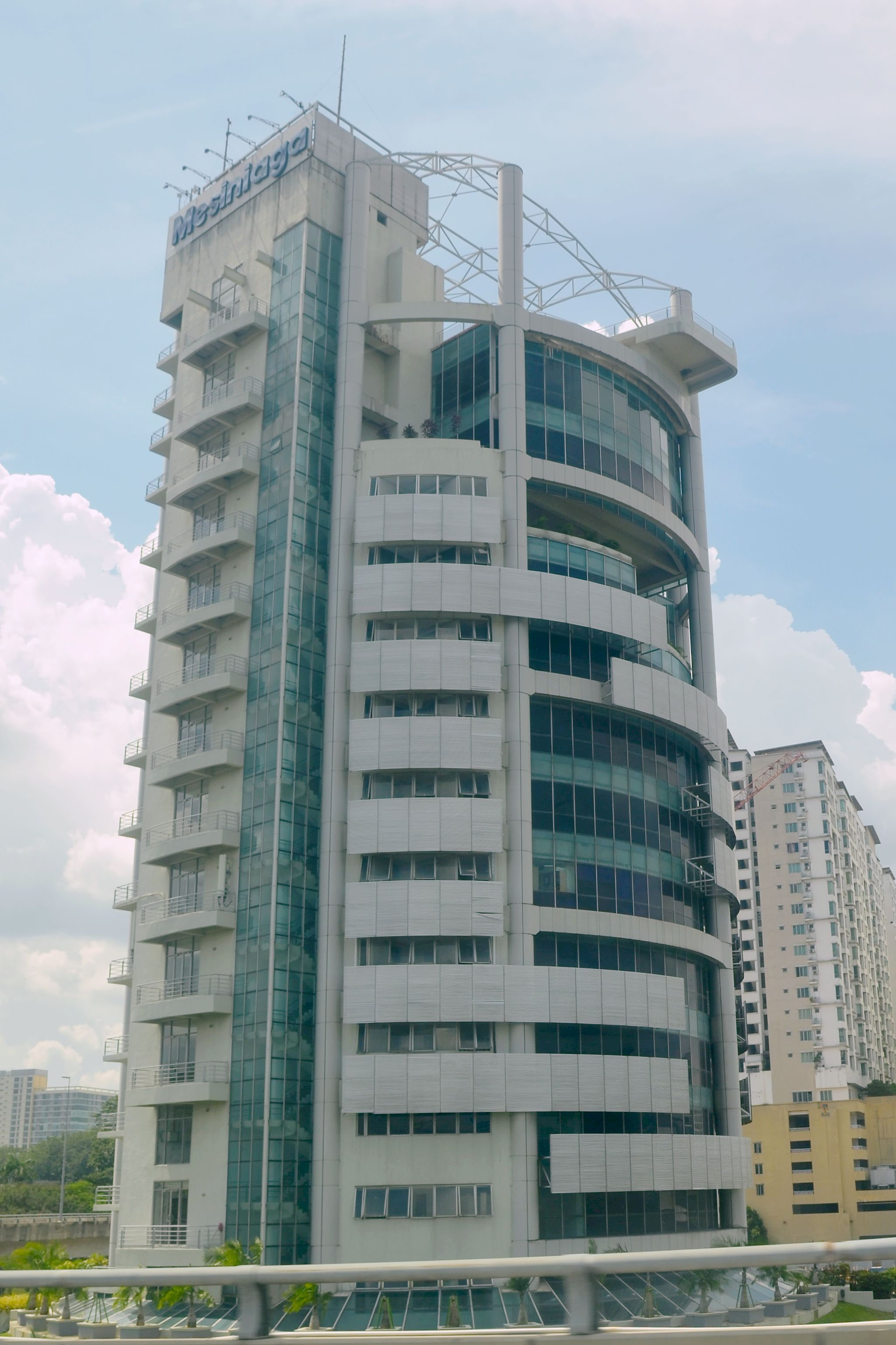 Mesiniaga Tower viewed from the Subang–Kelana Jaya Link.